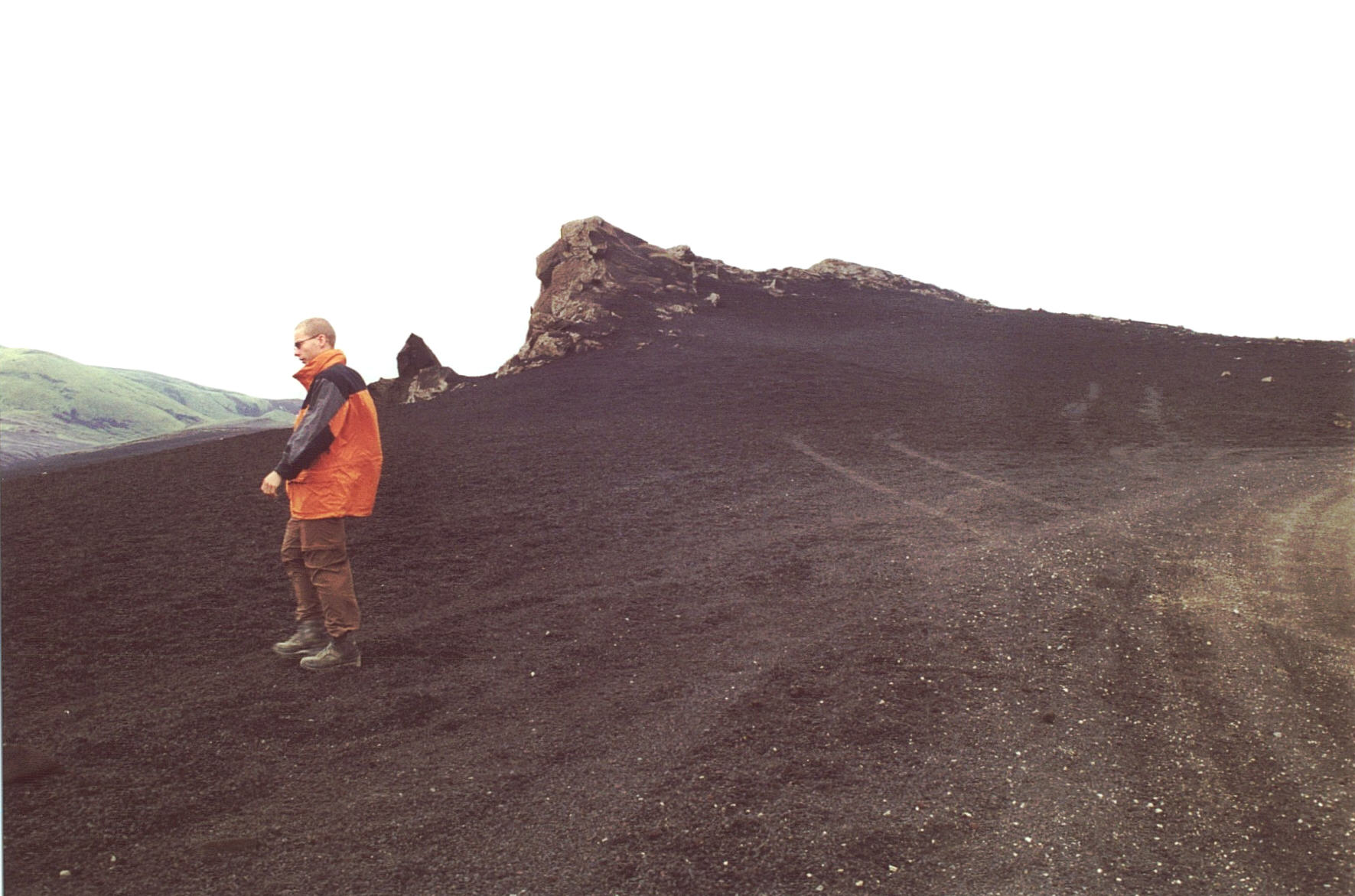 Lava field near the Hekla volcano, in southern Iceland.